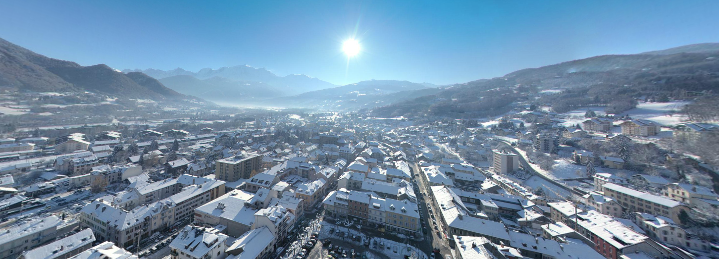 Panorama on winter